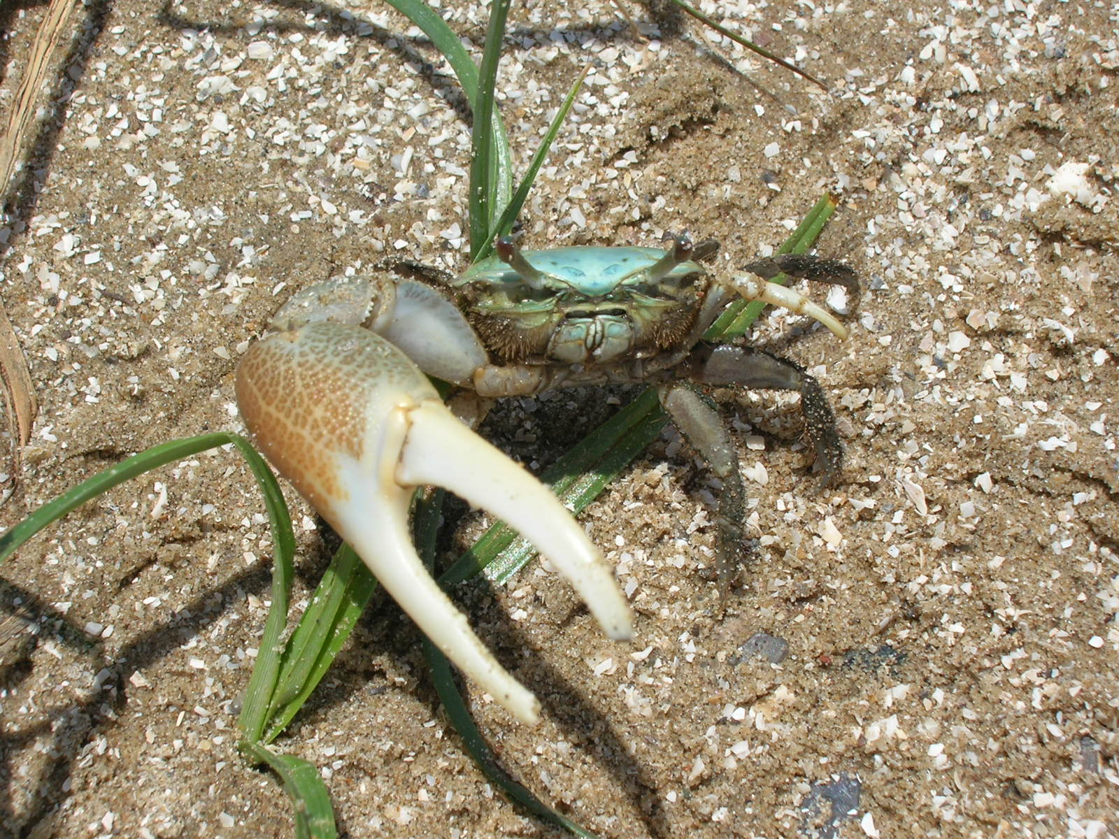 Fiddler crab (Uca sp.) , taken near the Gulf of Mexico, Louisiana